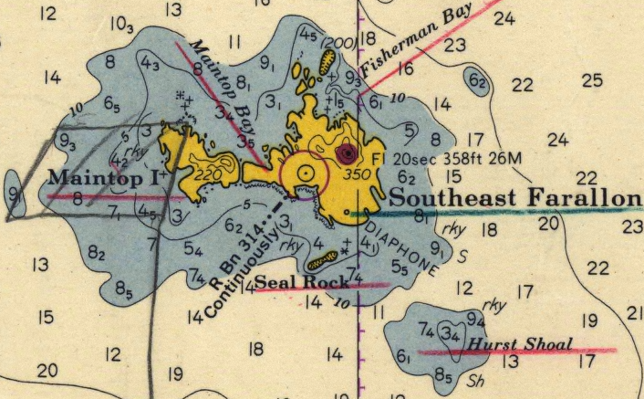 Original map is which a scan of an old nautical chart of the whole Farallones group, which can be viewed with GeoExpress View by ILS.Image. Careful: The resolution of the complete original map is 16197 by 12223 Pixels. I just cut out the area of the more important Southeast Farallons by making a screenshot.